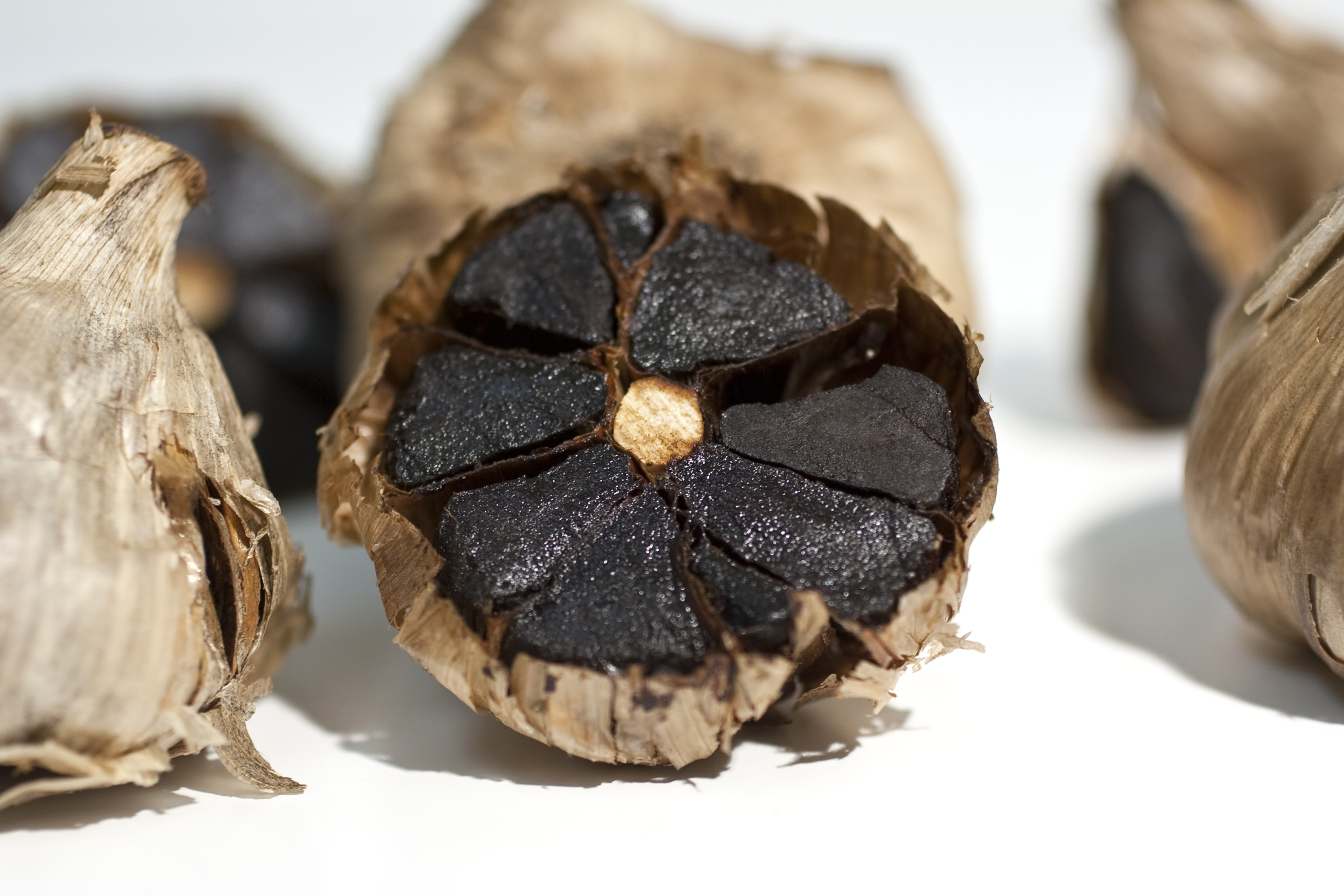 Cut bulb of black garlic.